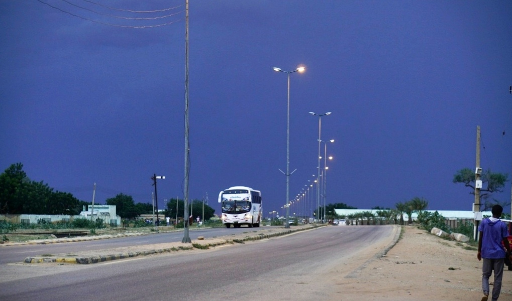 This is an image with the theme "Africa on the Move or Transport" from: Sudan